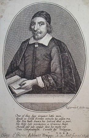 Anglican theologian John Trapp (1601-1669)